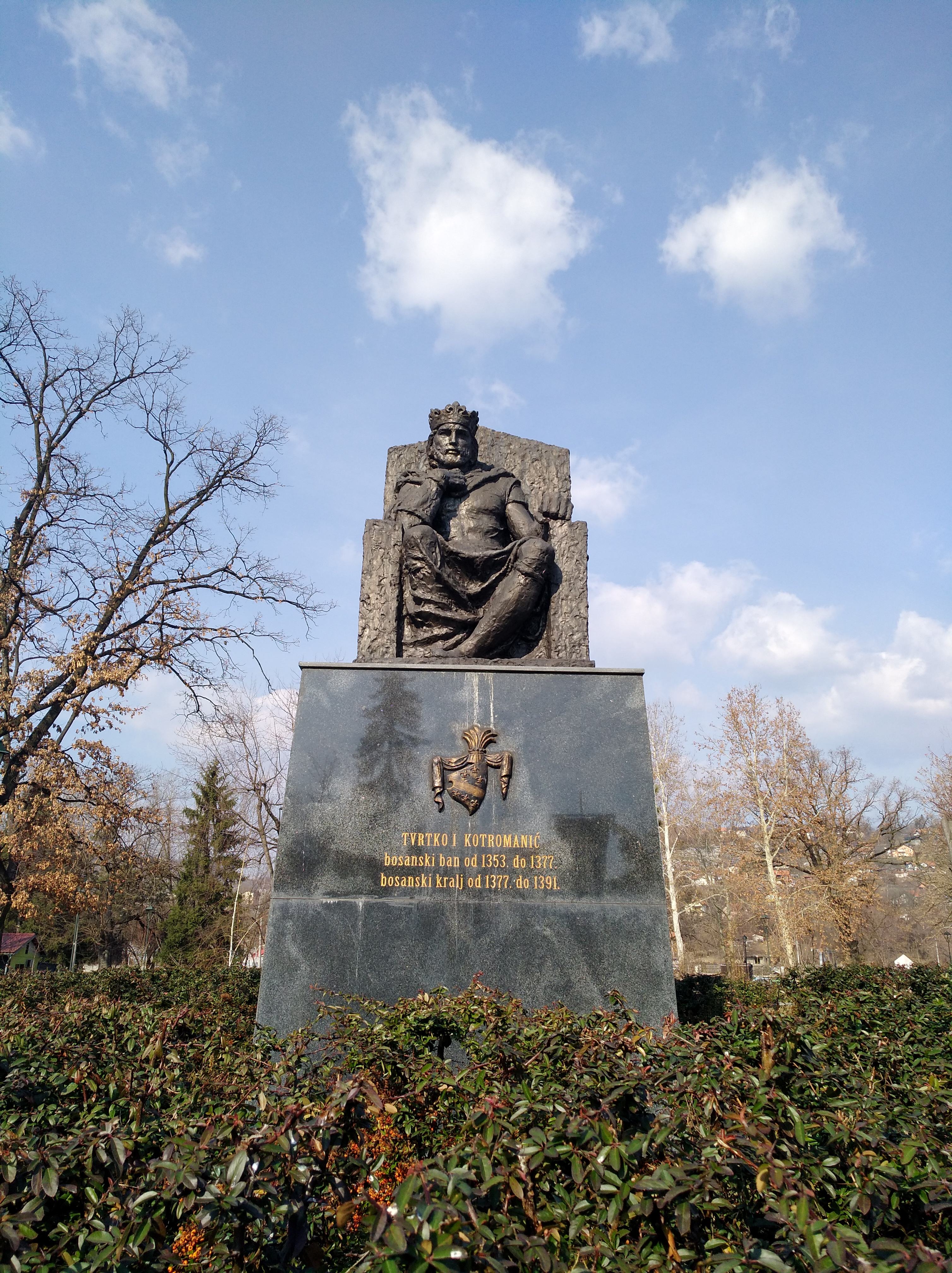 Monument to King Tvrtko I of Bosnia in the Central Park of Tuzla, Bosnia and Herzegovina.